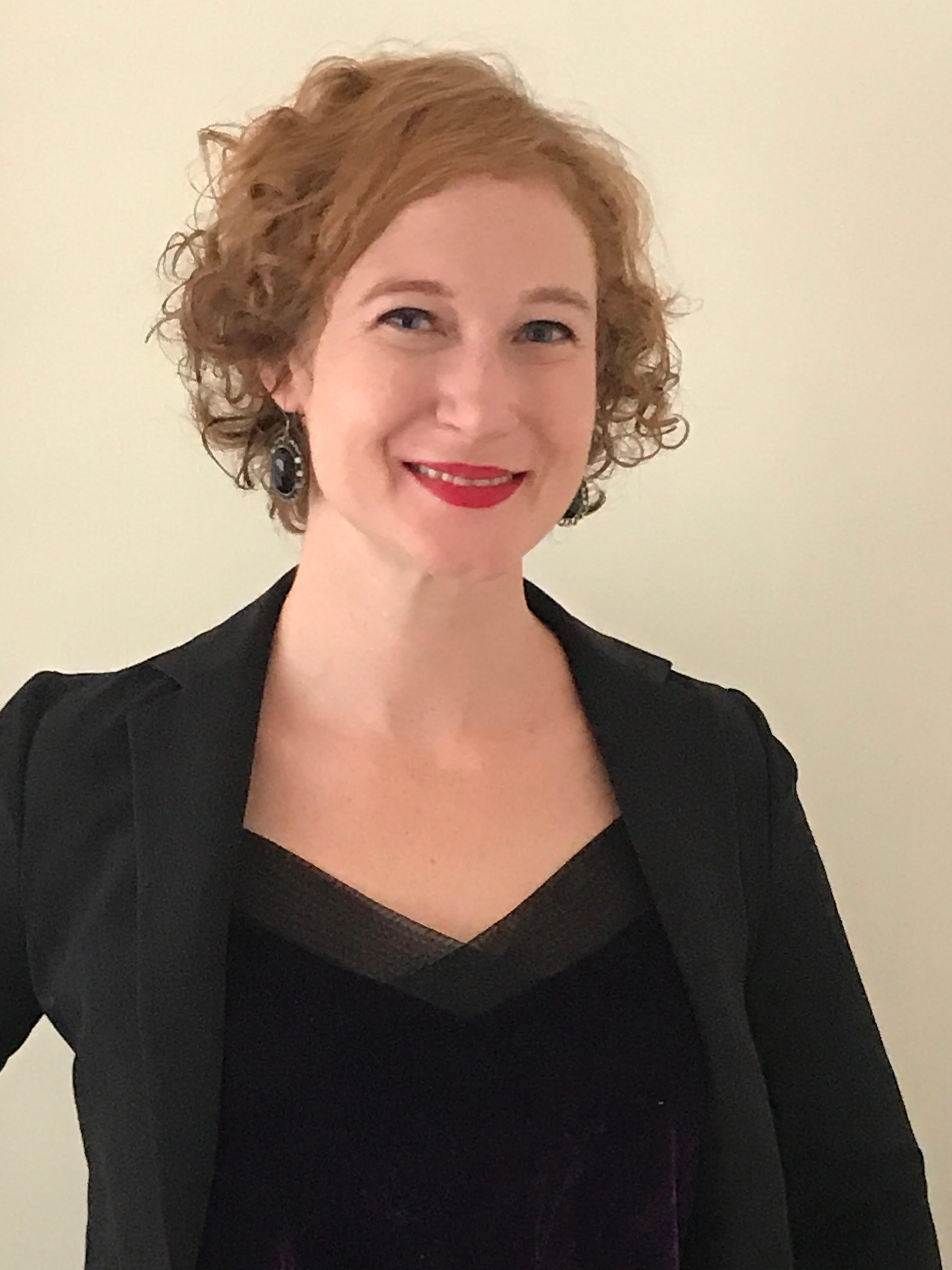 Picture